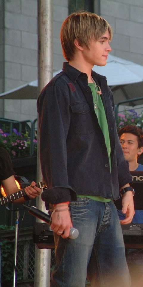 cc-by-2.0 (Original text: Photo of actor/singer Jesse McCartney ("some rights reserved"))